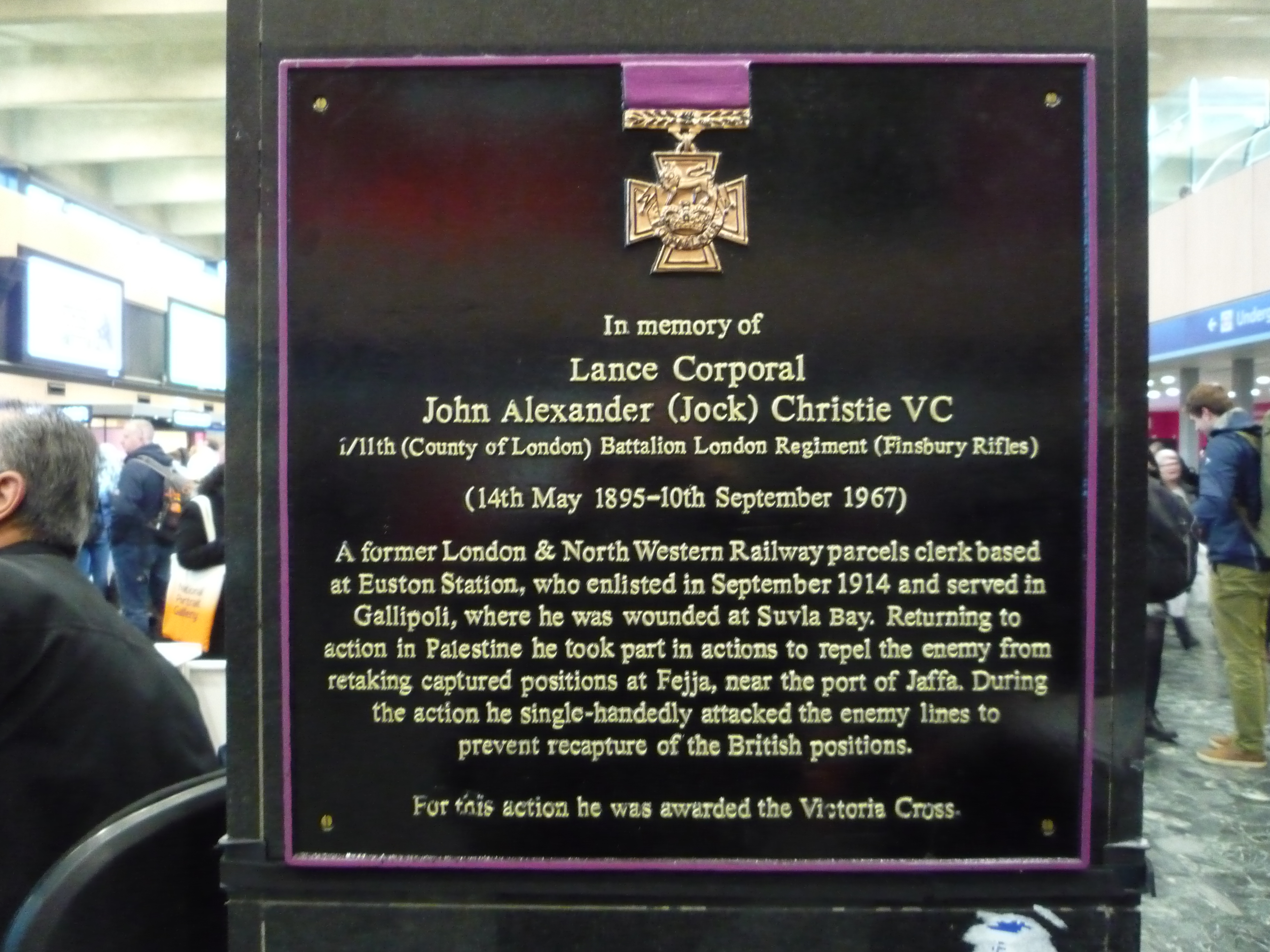 Plaque on the concourse at Euston Station to John Alexander Christie of the Finsbury Rifles awarded the Victoria Cross in 1917